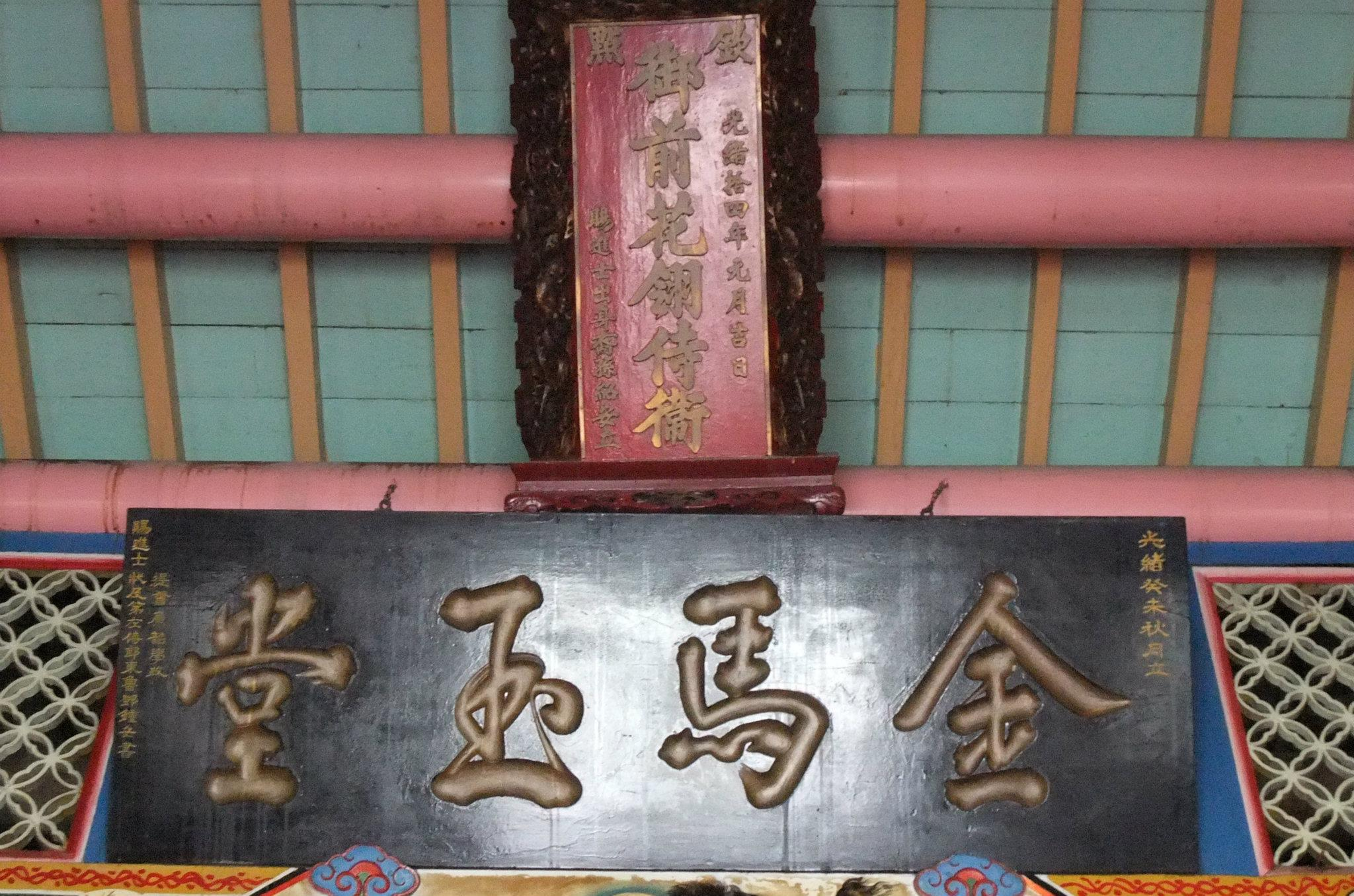 "Golden Horse Gate of the Jade Hall" Plaque made by Provincial Director of Education of Guangdong, Deng Zhongyue（1674-1748）.